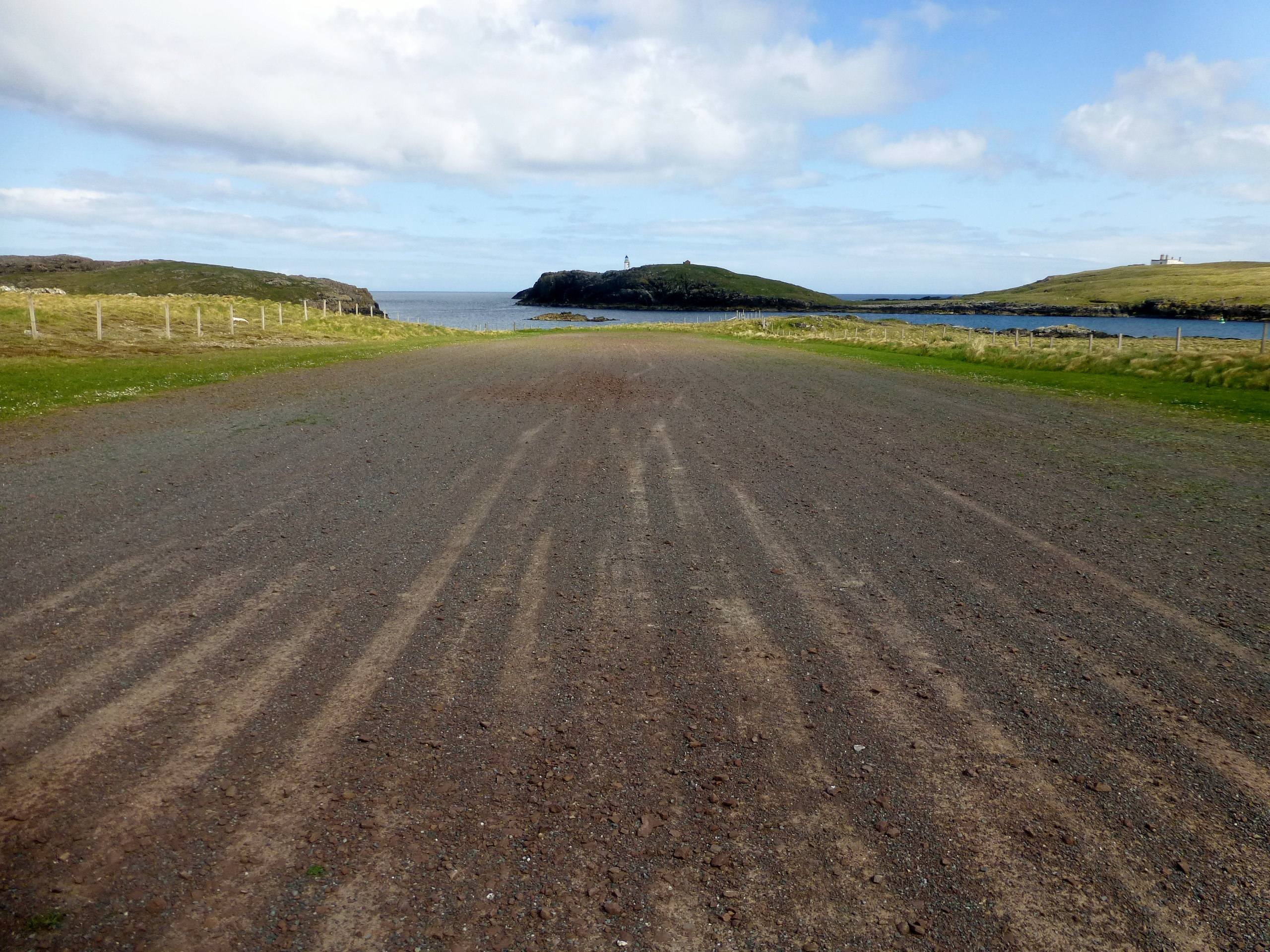 View East Down Runway at Out Skerries Airport